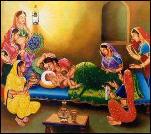 Birth of Swaminarayan: Swaminarayan and his mother, Bhaktimata.